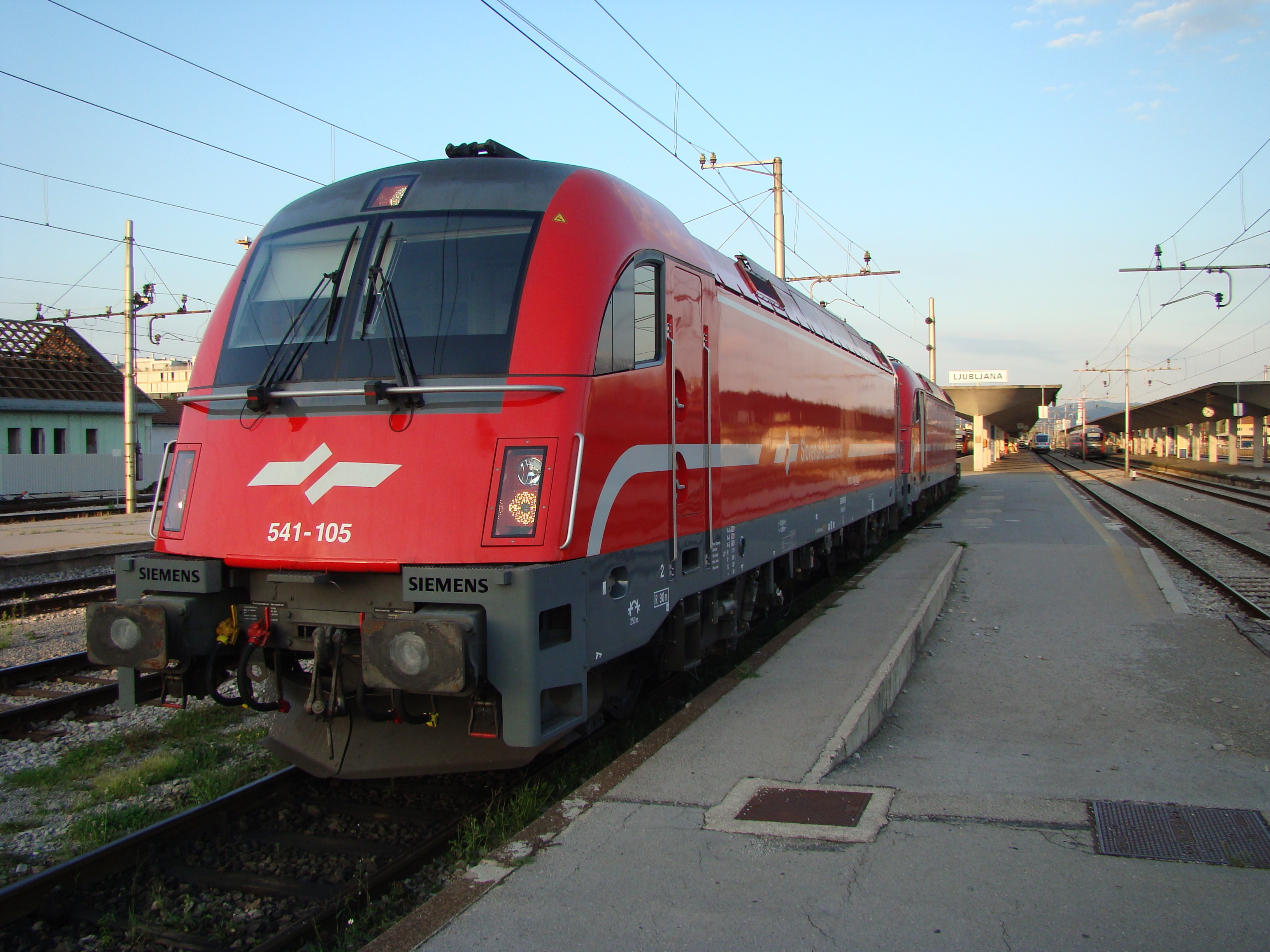 A Slovenian 541 series locomotive